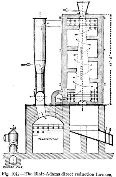 The Blair-Adams direct reduction furnace. It is the (Adrien) Chenot Process, improved by Blair, then Adams.